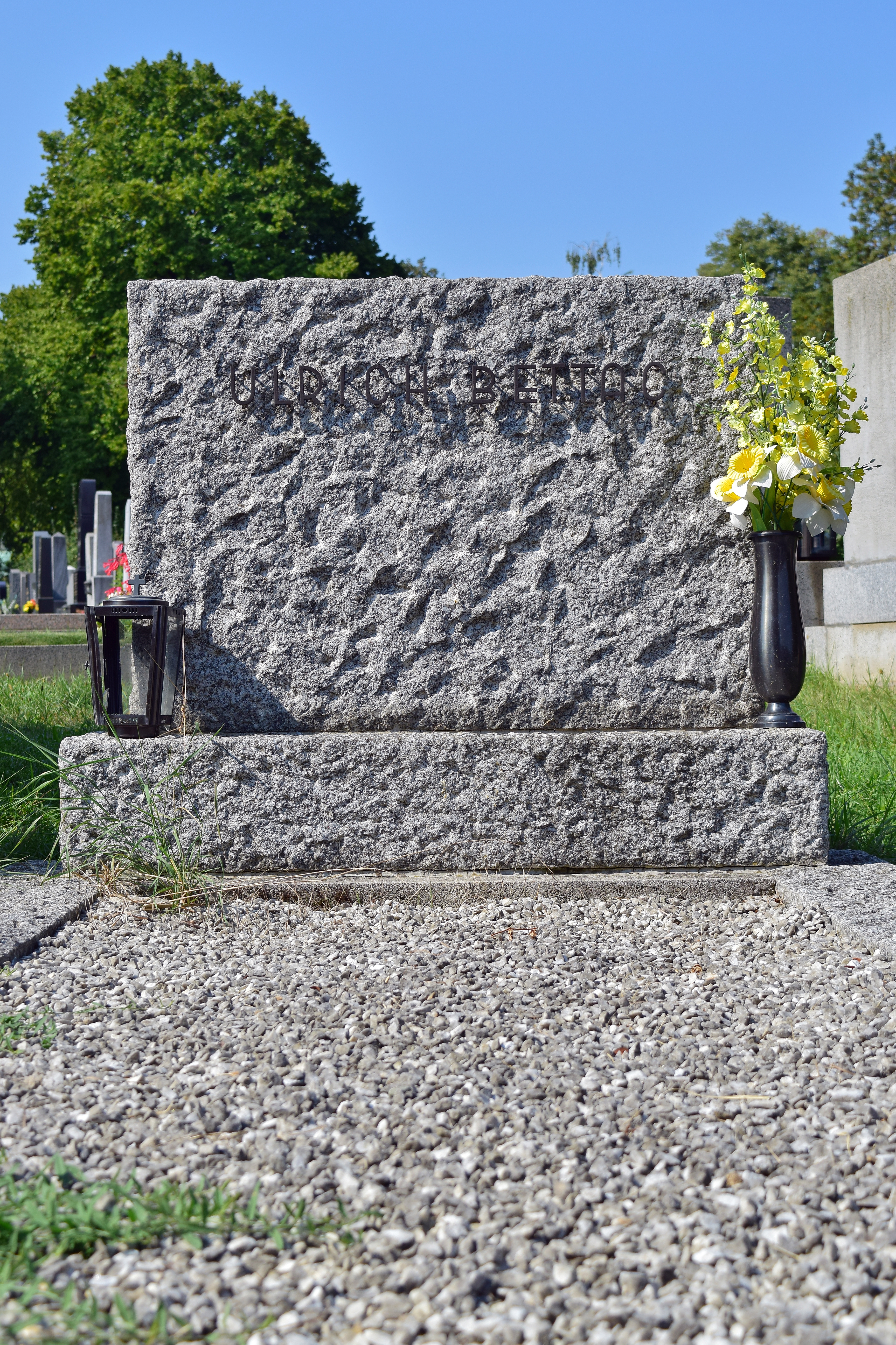 Grave of honor of the actor Ulrich Bettac at the Wiener Zentralfriedhof